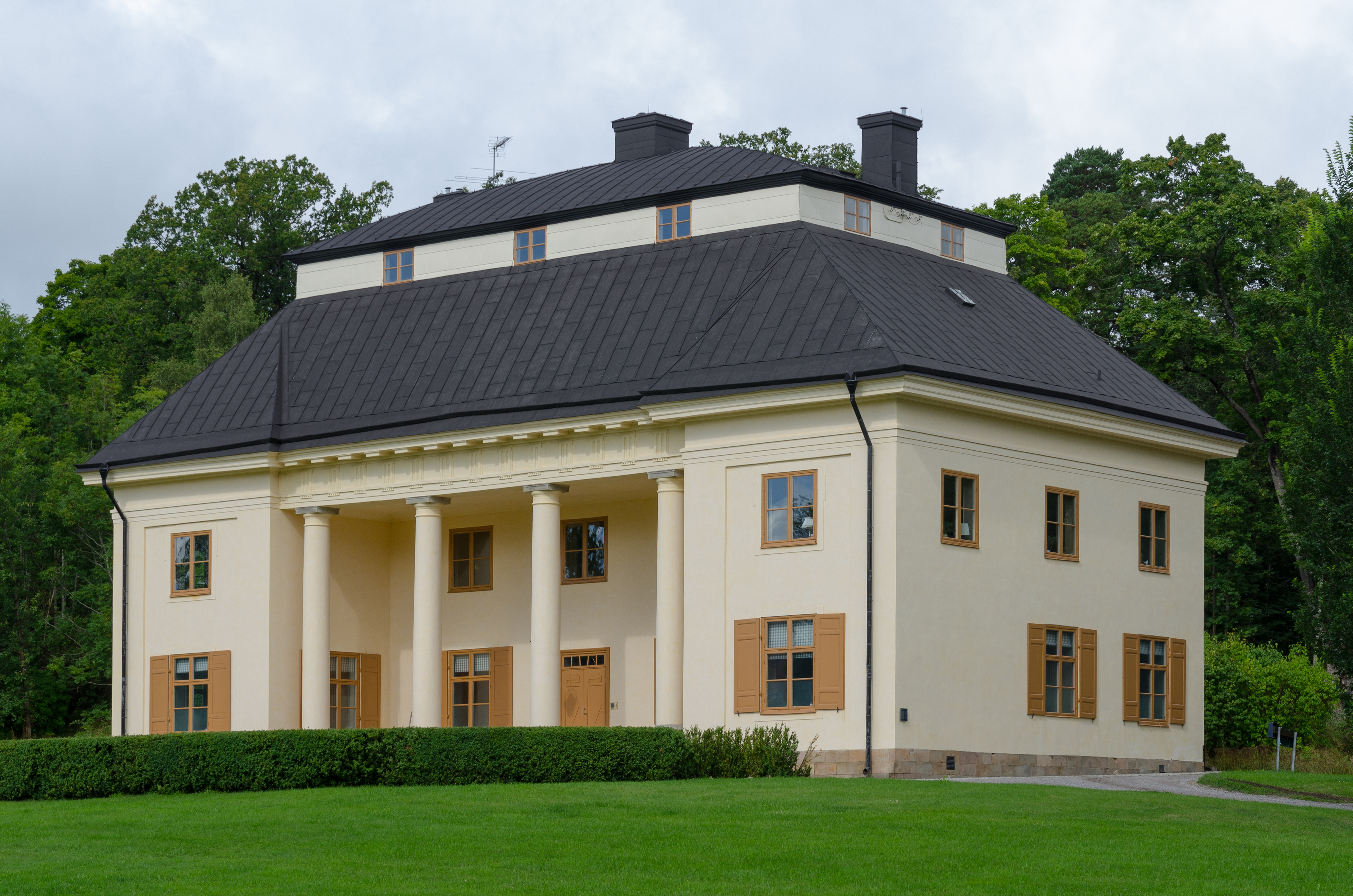 Hemmet or Ståthållarbostad (built 1787) is a historic property in Drottningholm and part of Royal Domain of Drottningholm - World Heritage Site The building was probably designed by Olof Tempelman.